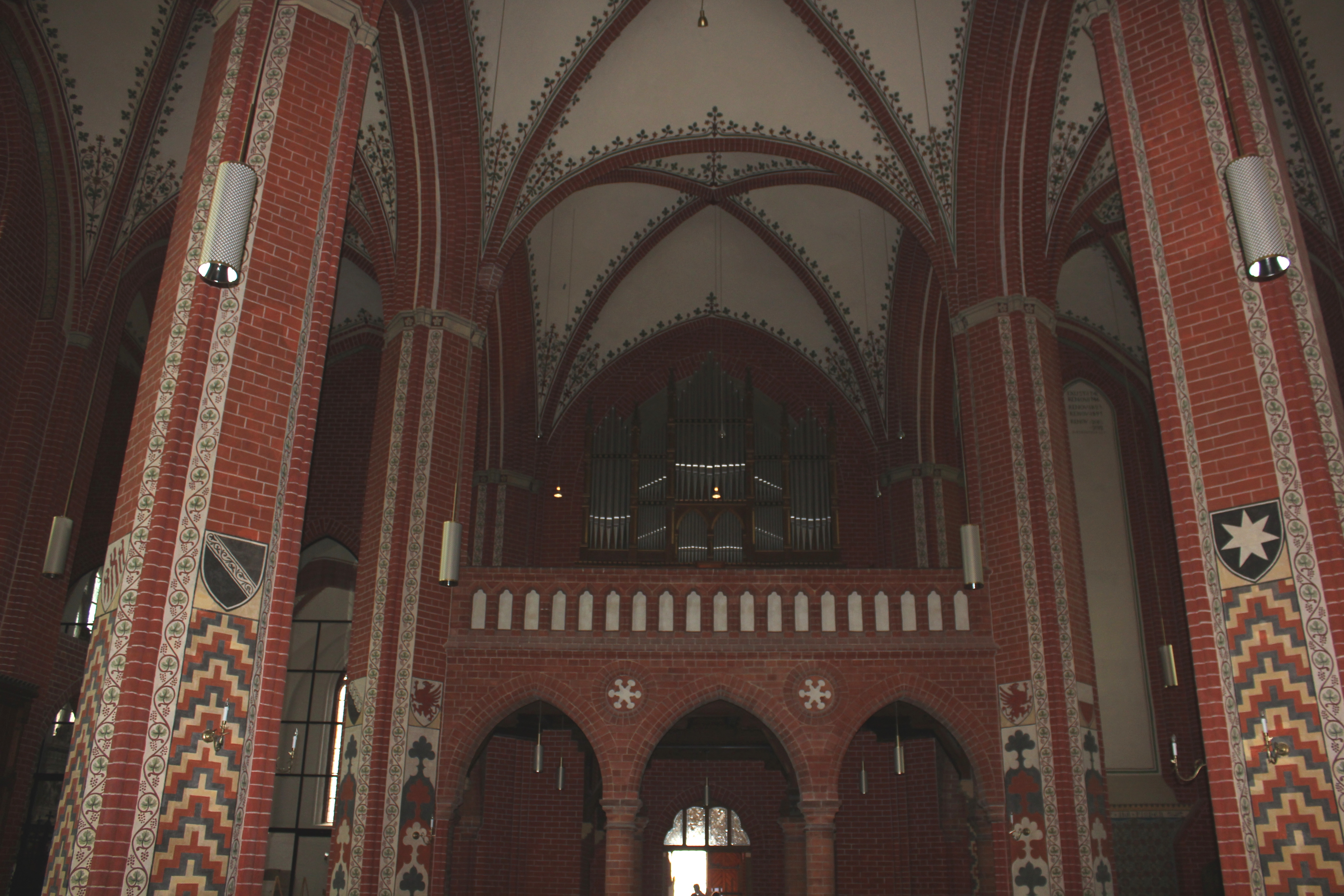 The Gallery from the church Sternberg in Mecklenburg